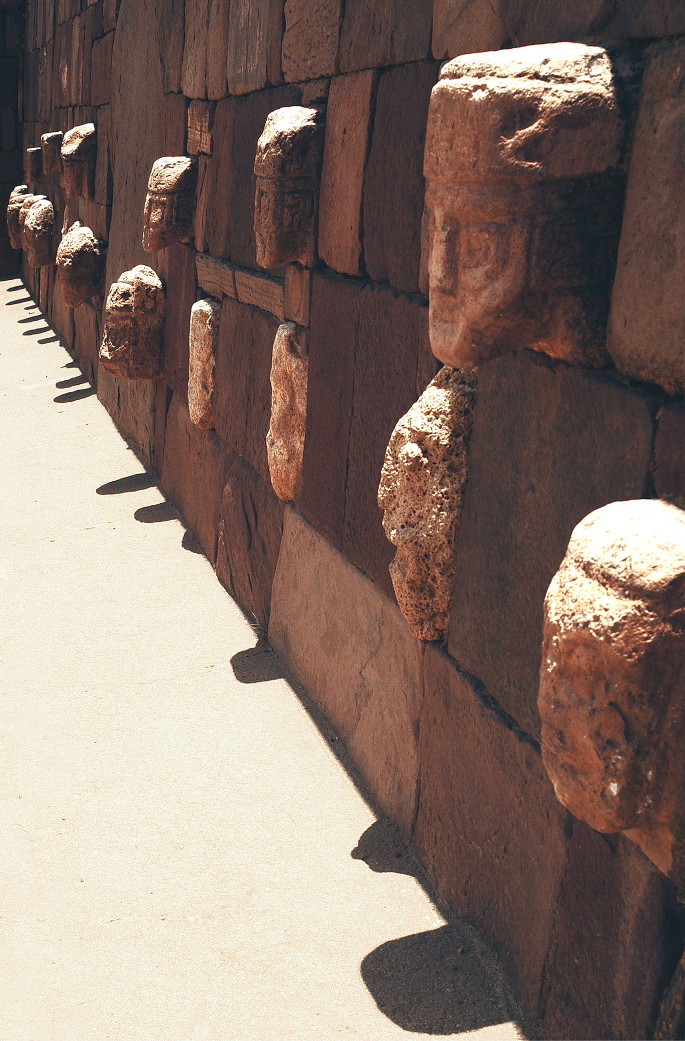 A detail of the wall of the Semi-subterranean Temple. Archaeological place of Tiwanaku, Ingavi, La Paz, Bolivia